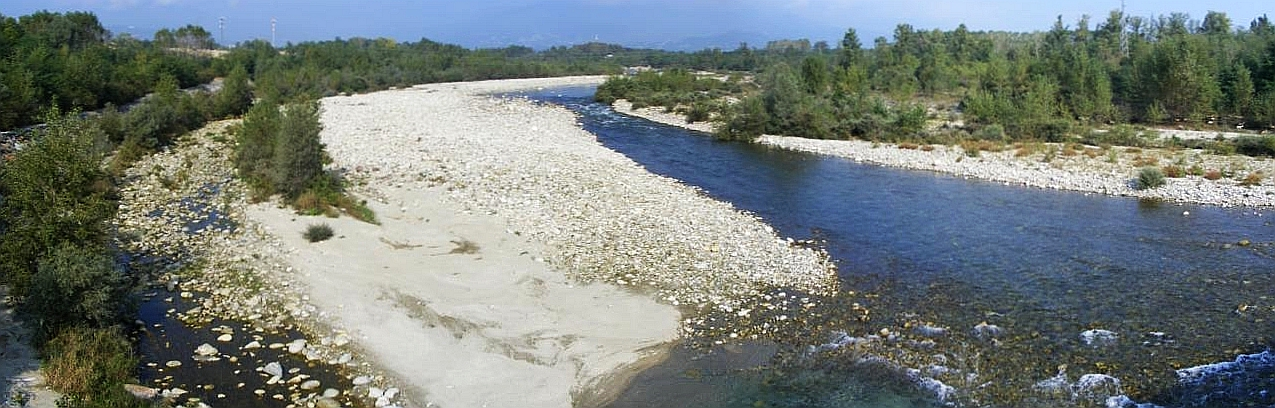 Orco creek from Rivarolo bidge (TO, Italy)